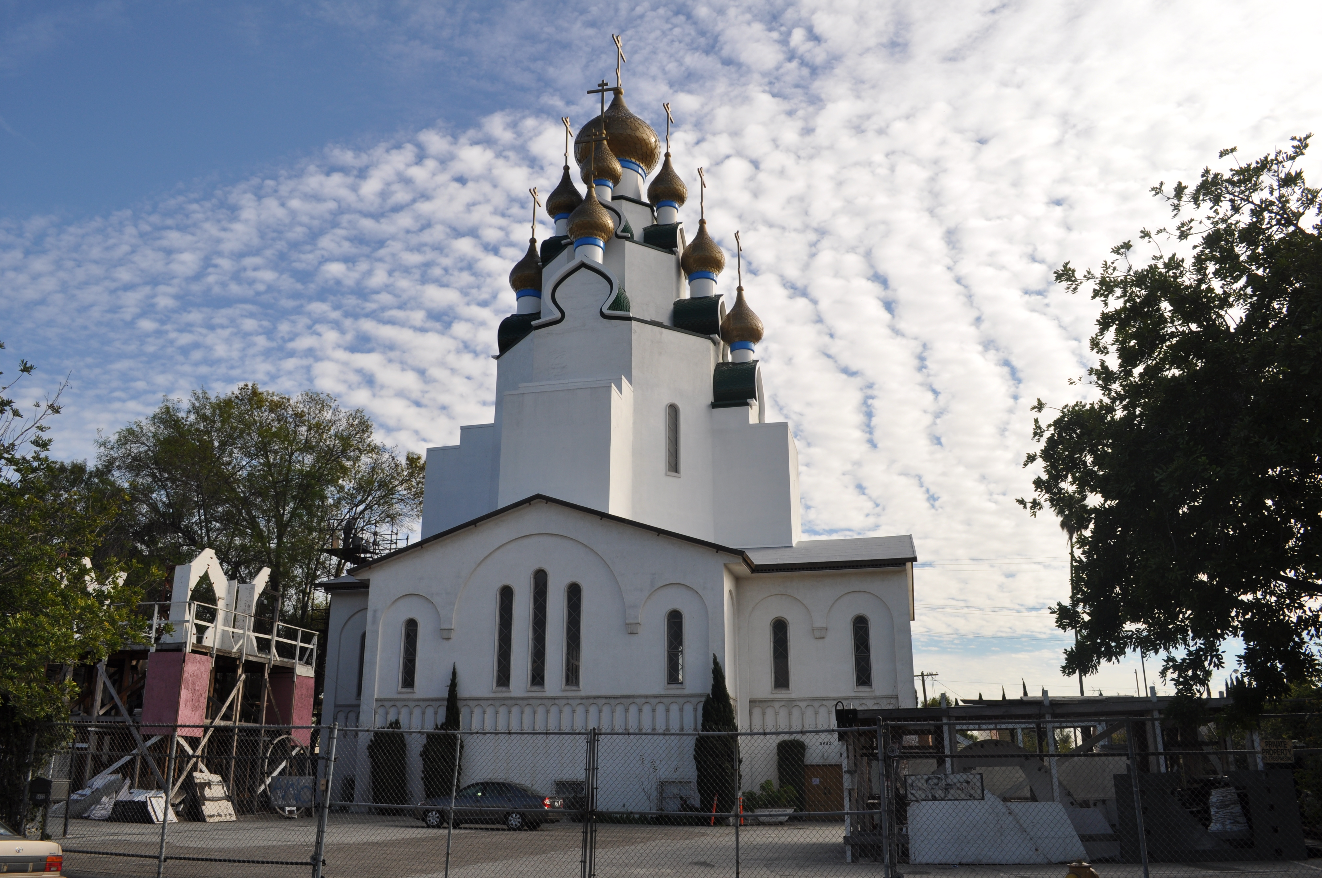 Holy Transfiguration Russian Orthodox Church, Little Armenia, Los Angeles, California.